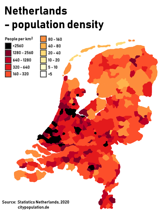 A map representing population density in the Netherlands by municipality, as of 2020